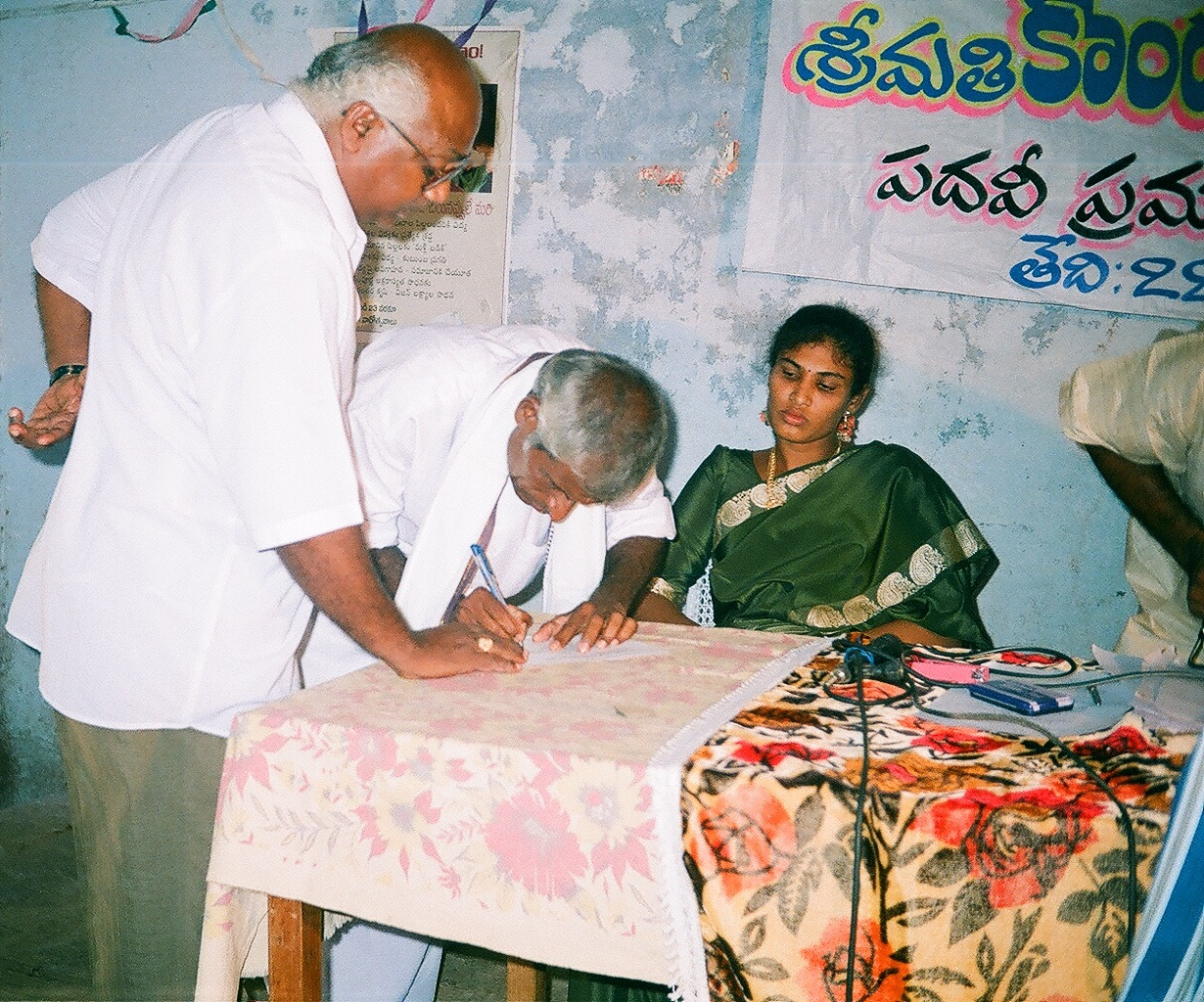 MPTC Members Sign in administer an oath note